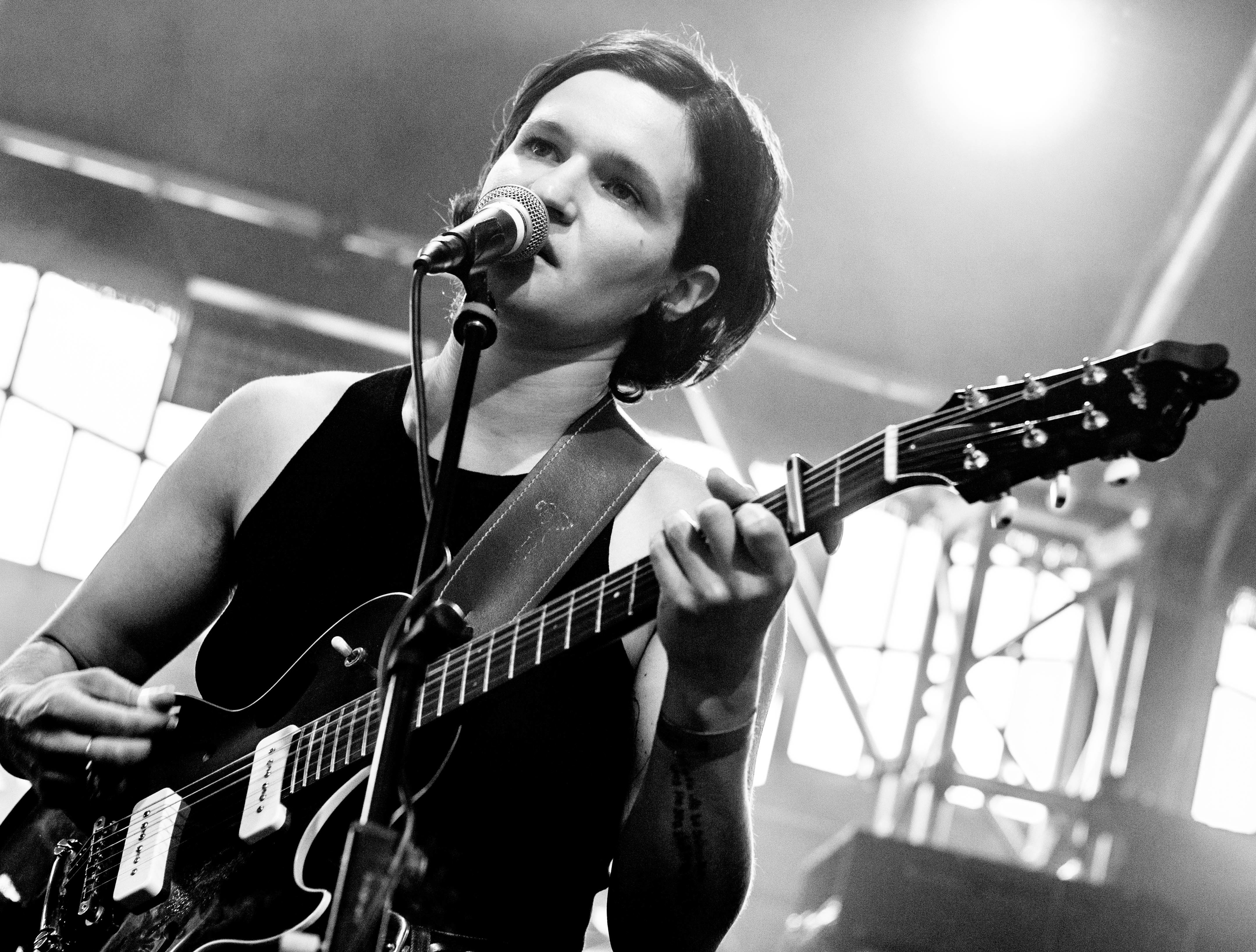 Big Thief at Haldern Pop Festival 2018 in Haldern